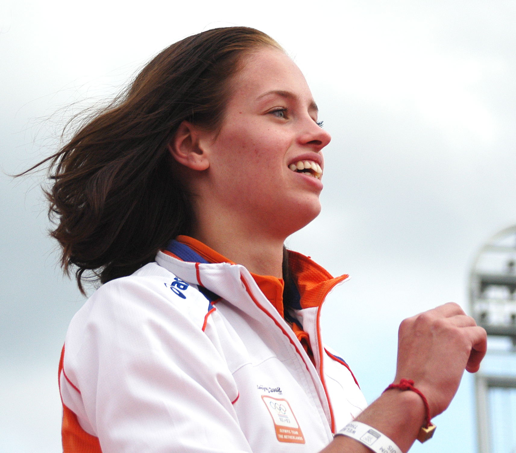 Suzanne Harmes at the Olympic welcome in the Olympic Stadium in Amsterdam, the Netherlands